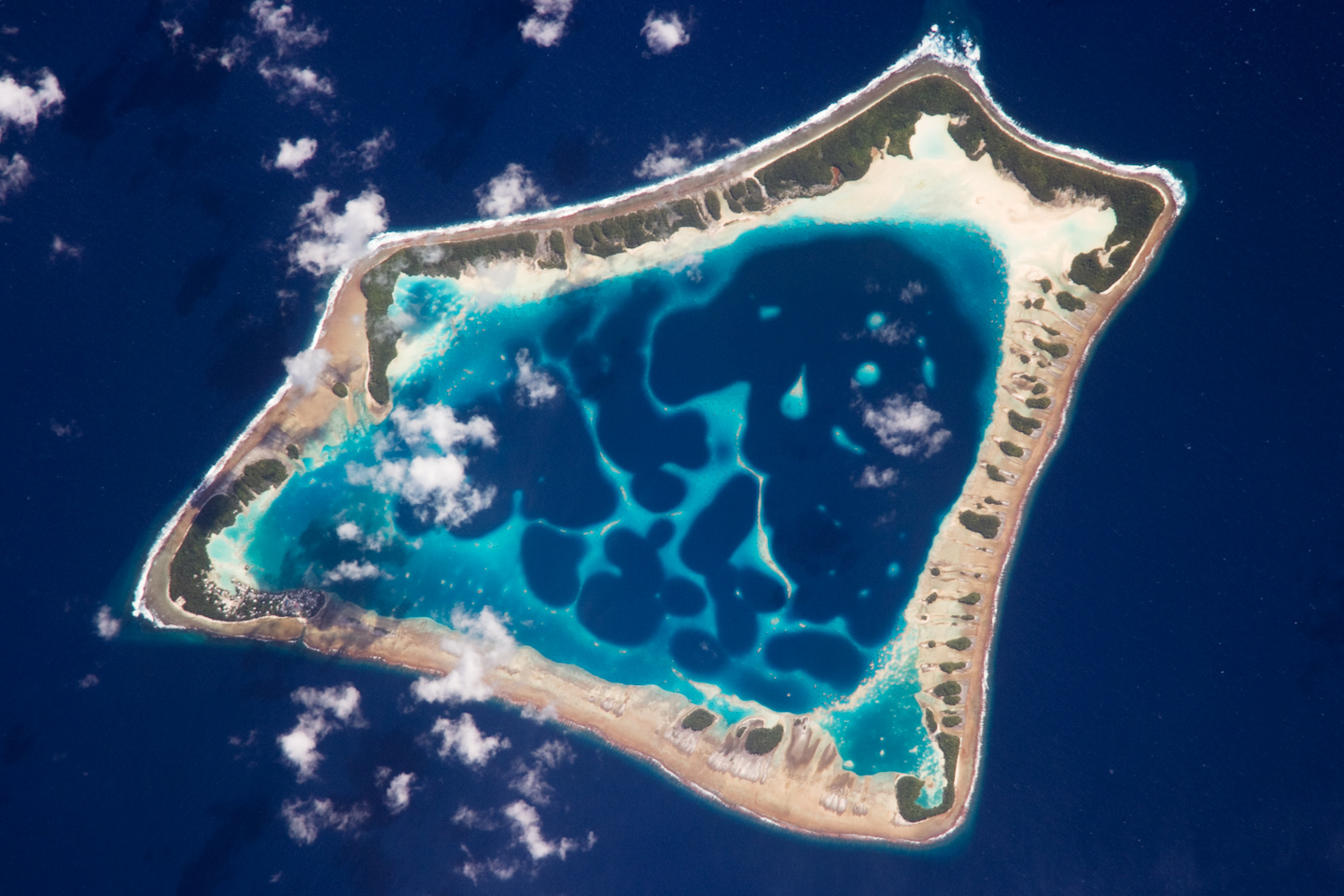 An aerial view of Atafu atoll in Tokelau. It is the smallest of Tokelau’s three atolls with a land area of only 2.5 square kilometres. Photo: NASA